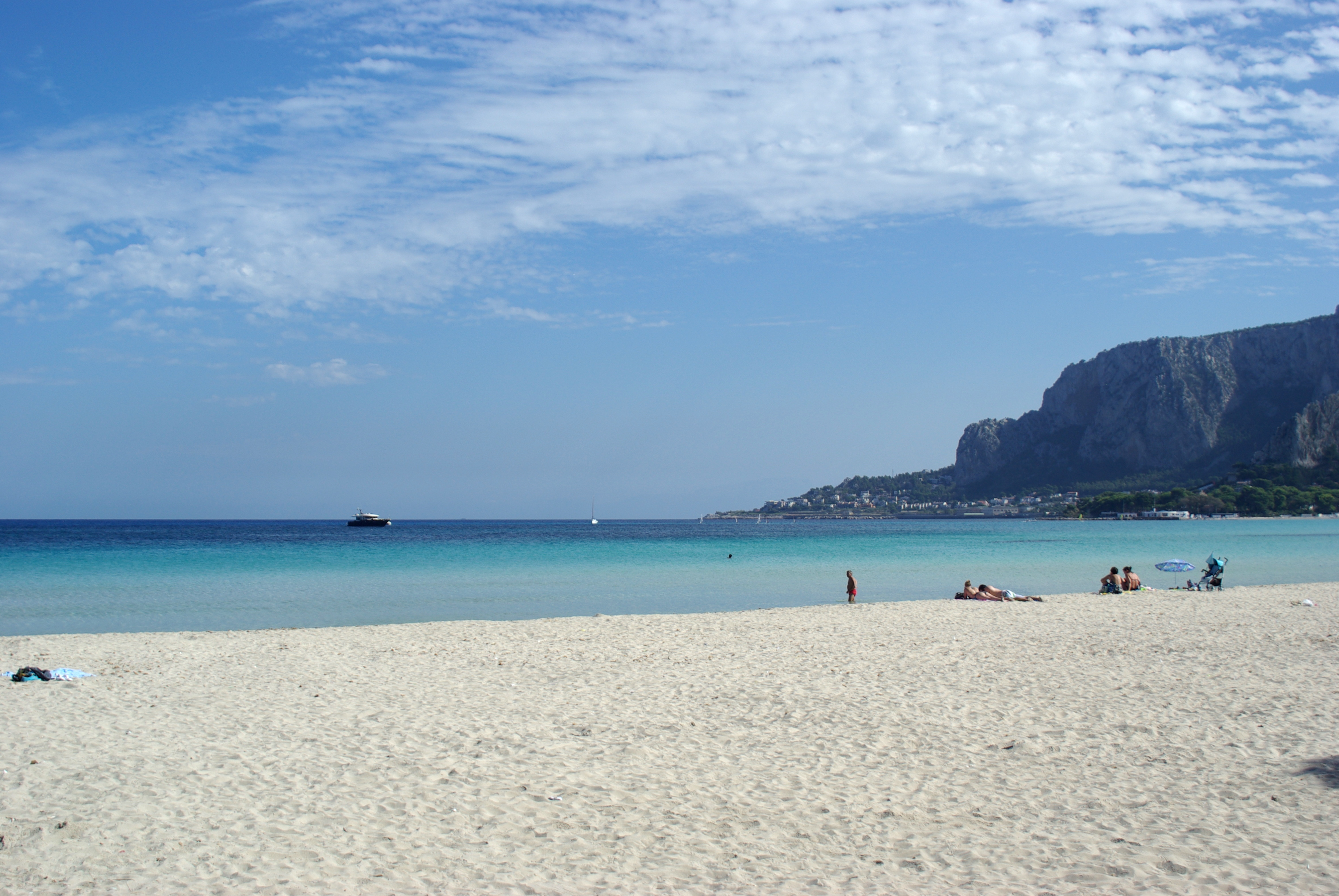 Italy, Sicily, Palermo, Mondello